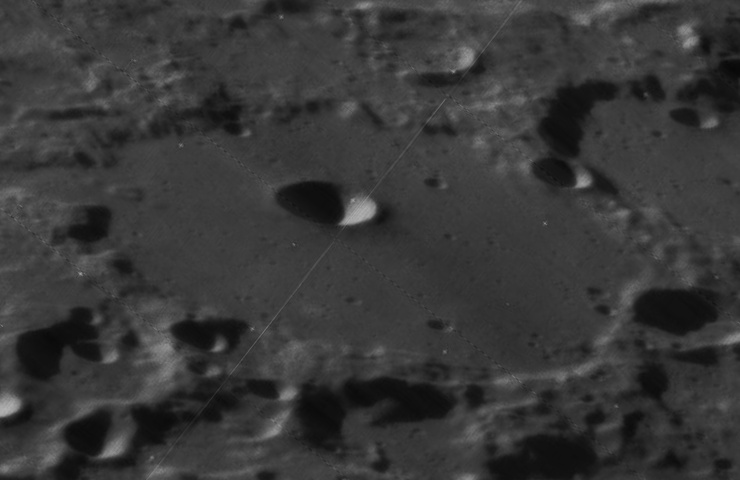 Oblique view of Baillaud, facing west, on the moon.